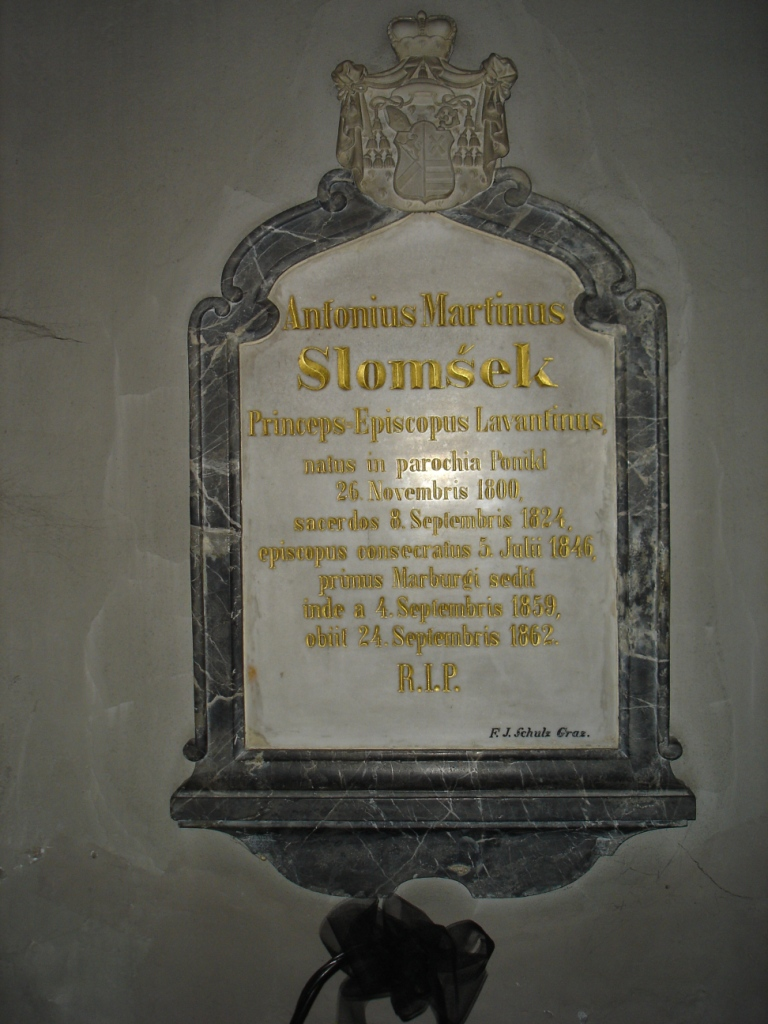 Tombstone of bishop Anton Martin Slomšek, Chapel of saint Cross - vault of bishop Anton Martin Slomšek, Cathedral of Maribor, Slovenia